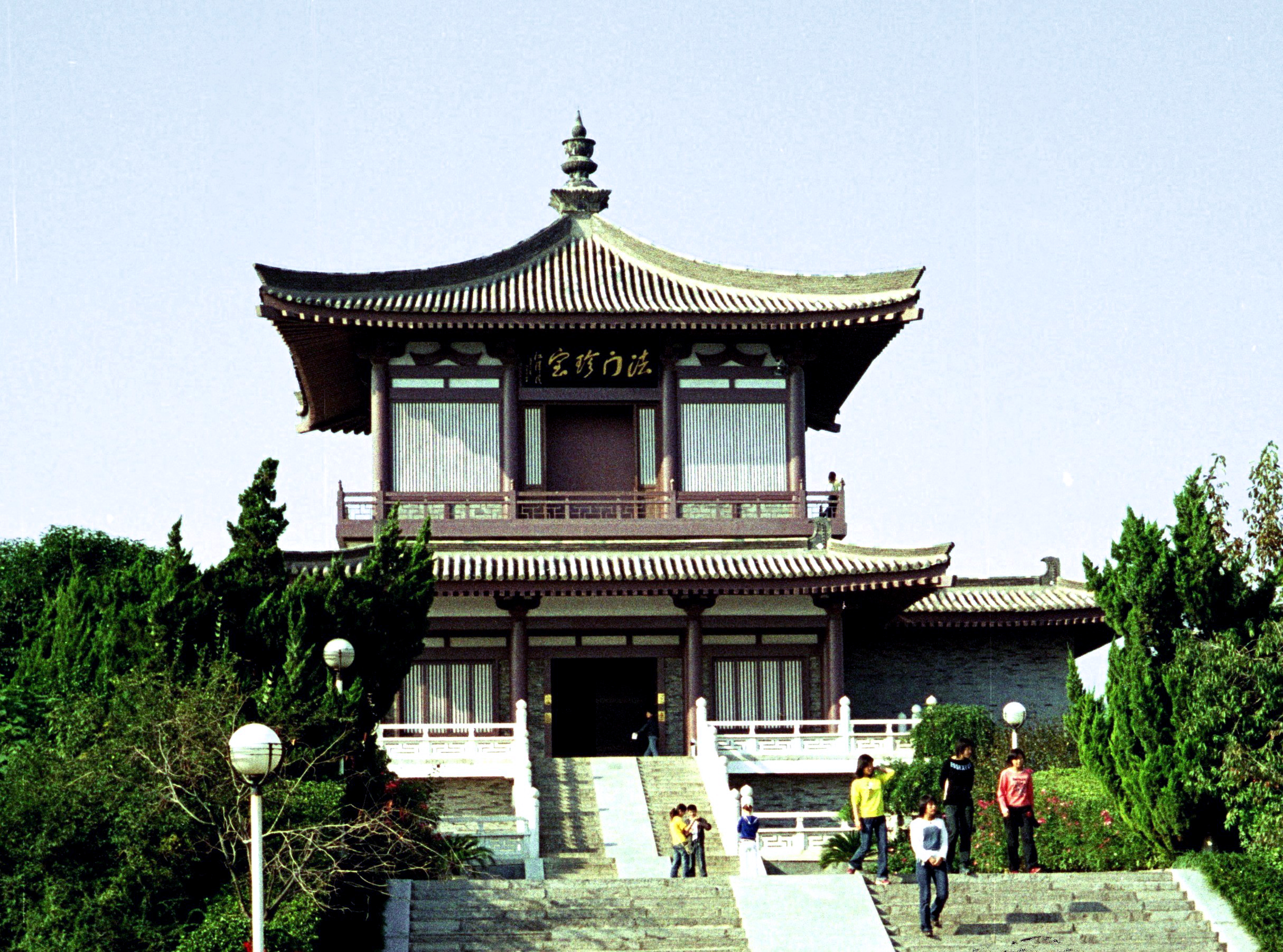 Fameise Jewel museum